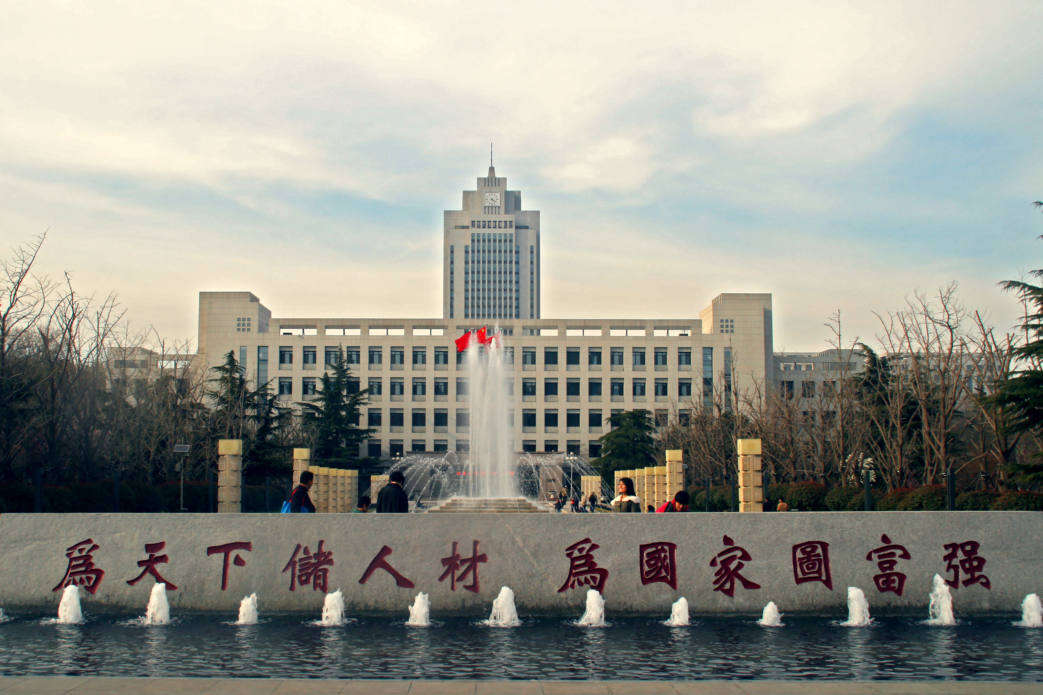 Central Campus of Shandong University. The building in the front is the library and the tower behind it is Zhixin Tower. The Chinese characters engraved on the bottom stone display the educational goal of SDU, which means "cultivate talented people for the world, and strive for prosperity of the country (为天下储人才，为国家图富强)".